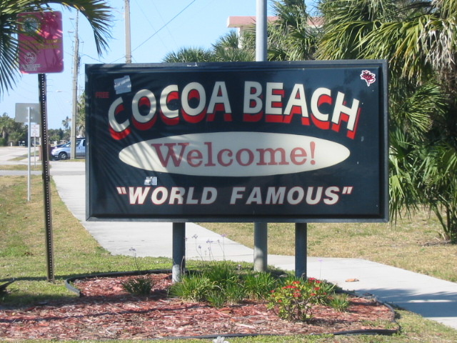 Welcome sign to Cocoa Beach, Florida. Taken by me on 3/26/2006.